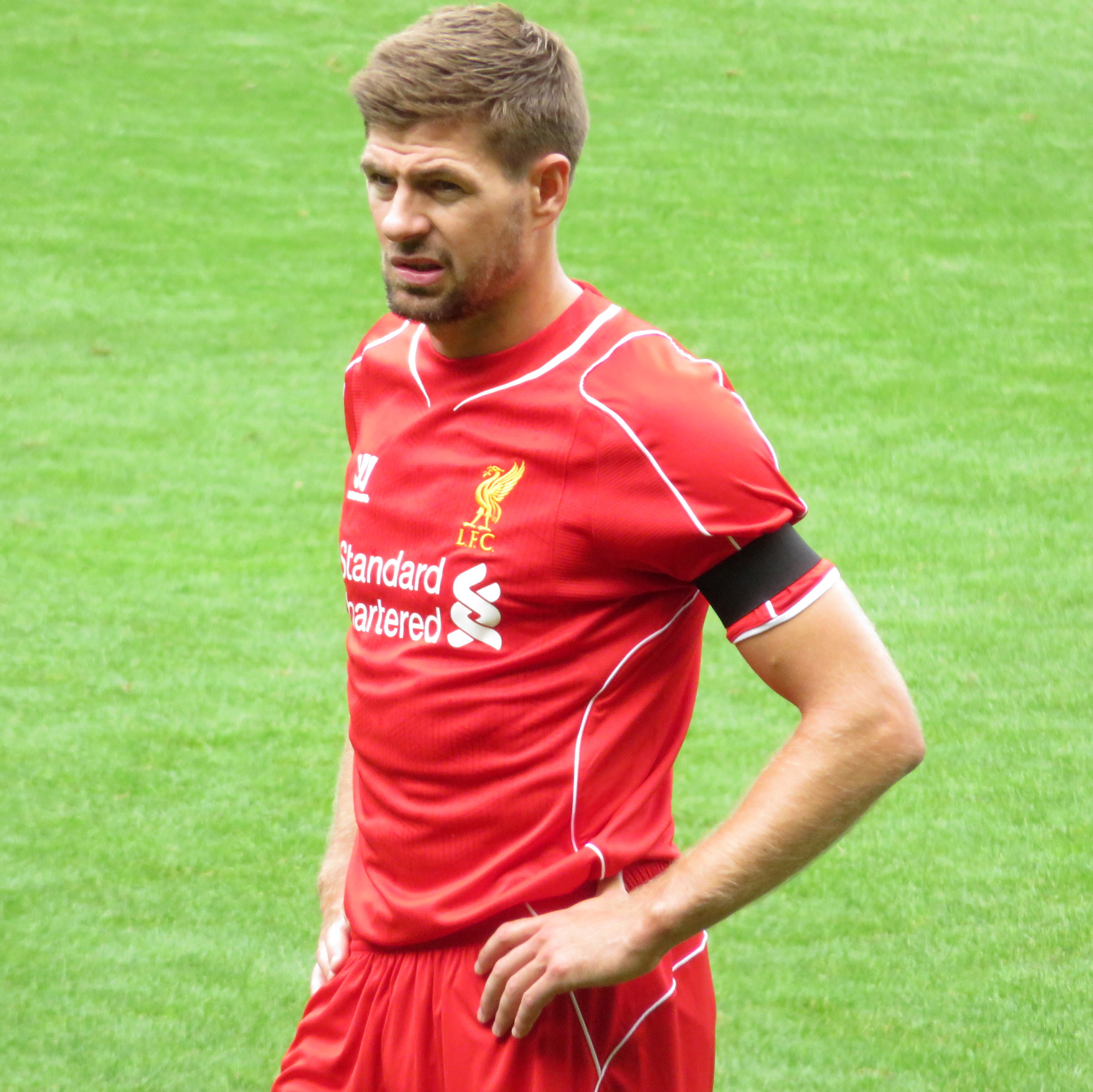 Steven Gerrard playing for Liverpool in a friendly match against Borussia Dortmund on 10 August 2014